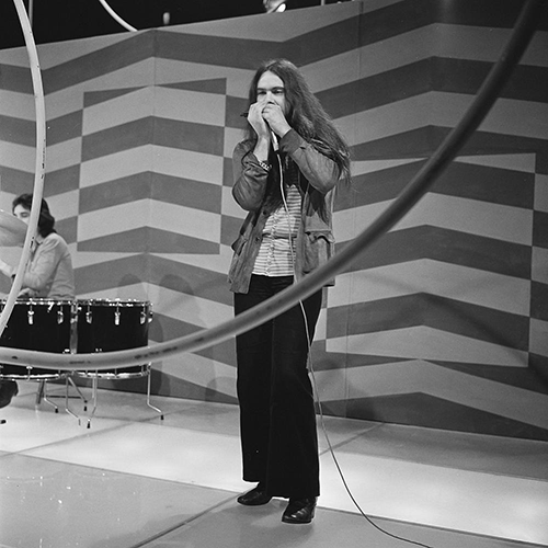 John Lagrand (Livin' Blues) in AVRO's TopPop (Dutch television show) in 1972